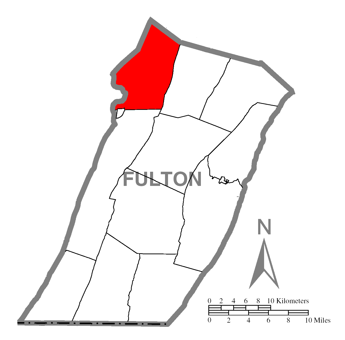 A map of Fulton County showing Wells Township, Pennsylvania (alternate) highlighted on the map.